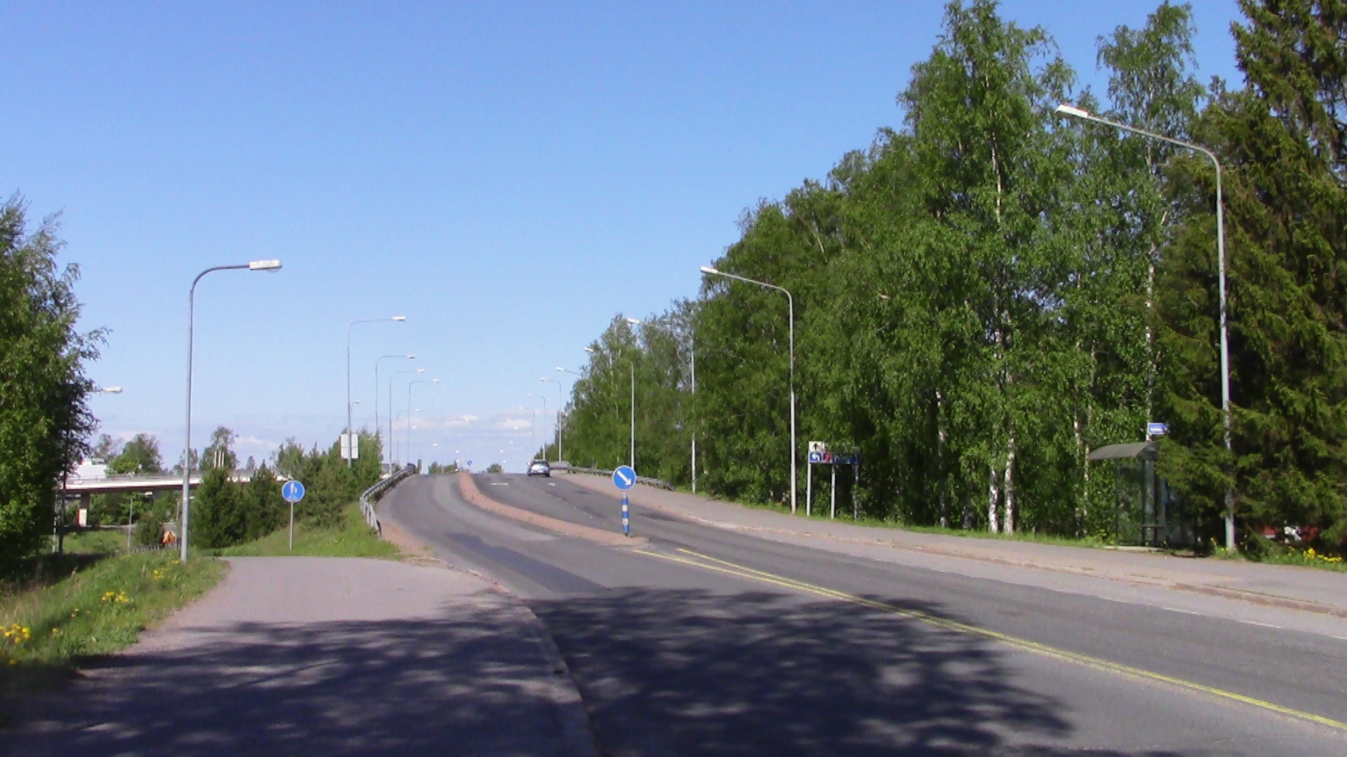 Connecting road 2444 at Friitala suburb in Ulvila, Finland. The road is only about 500 metres long.